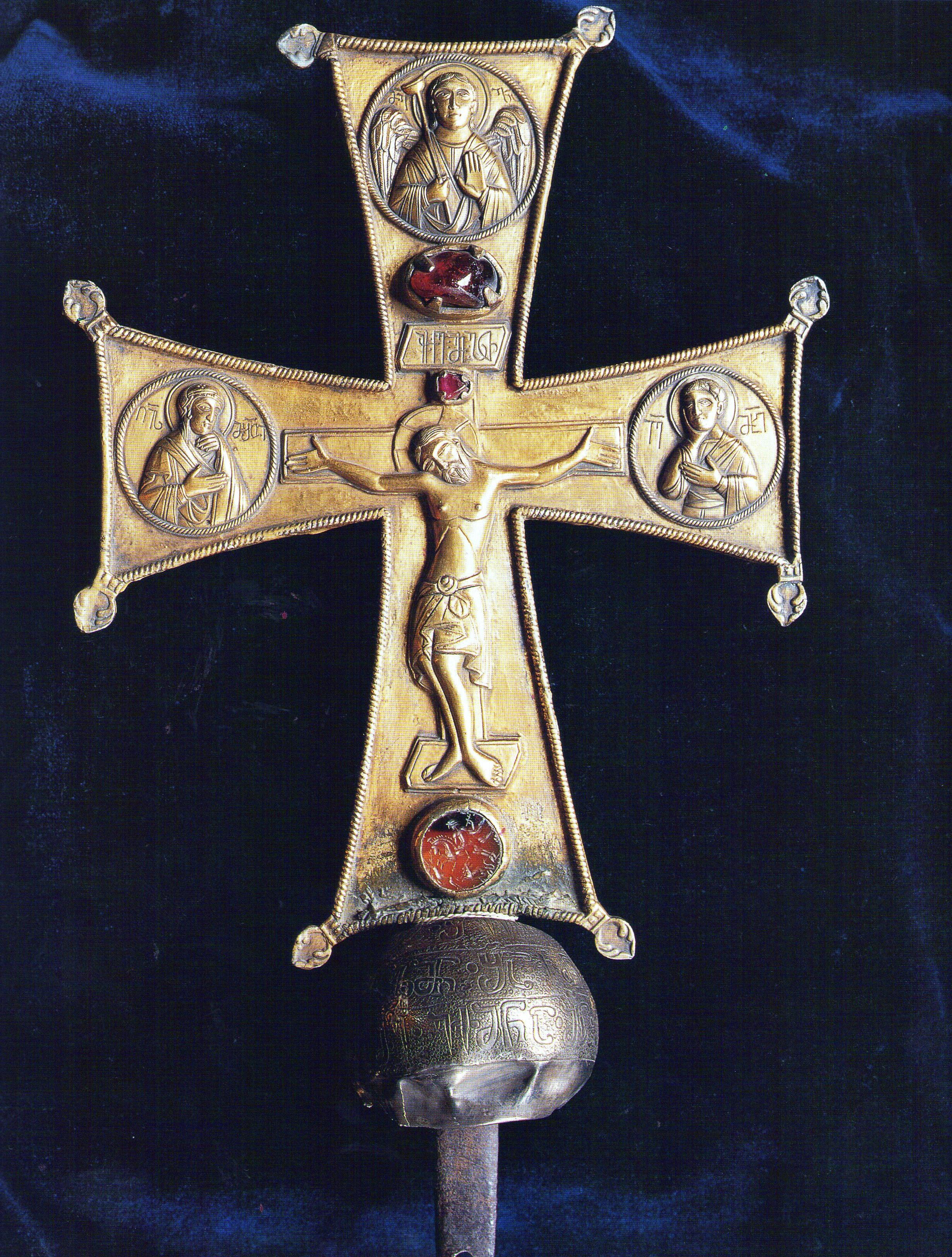 David IV's processional cross from 12th century Georgia